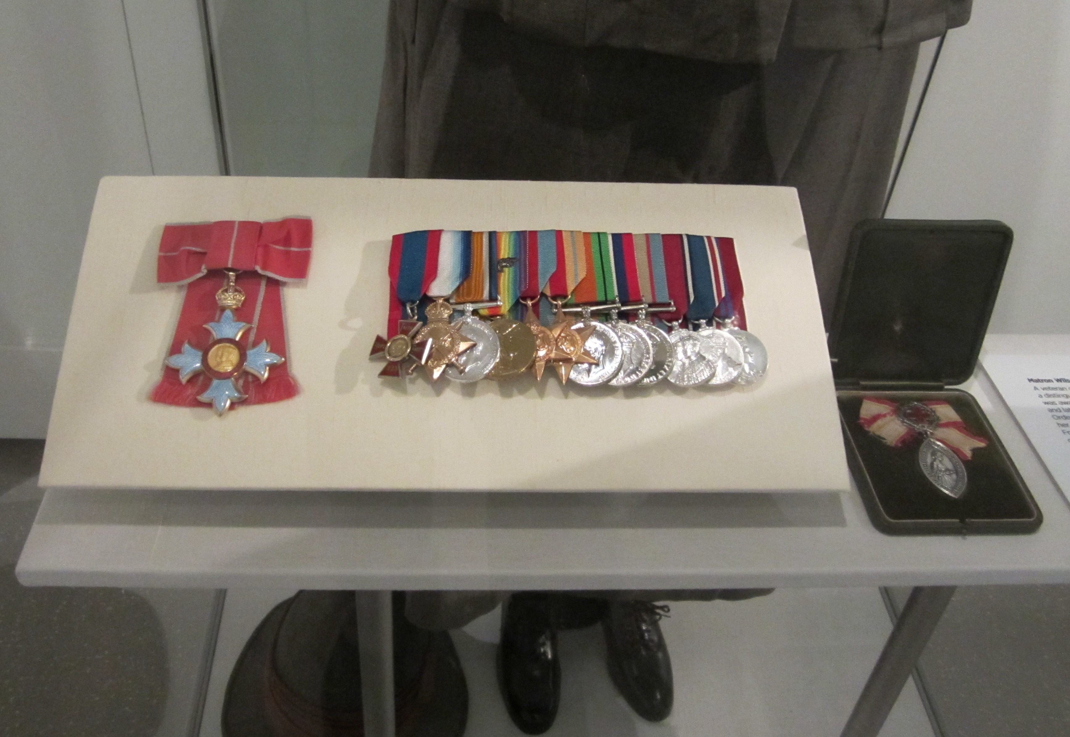 Grace Wilson's medals on display at the Australian War Memorial in December 2011